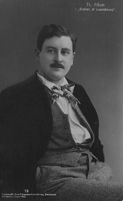 Thorleif Allum i Greven av Luxembourg